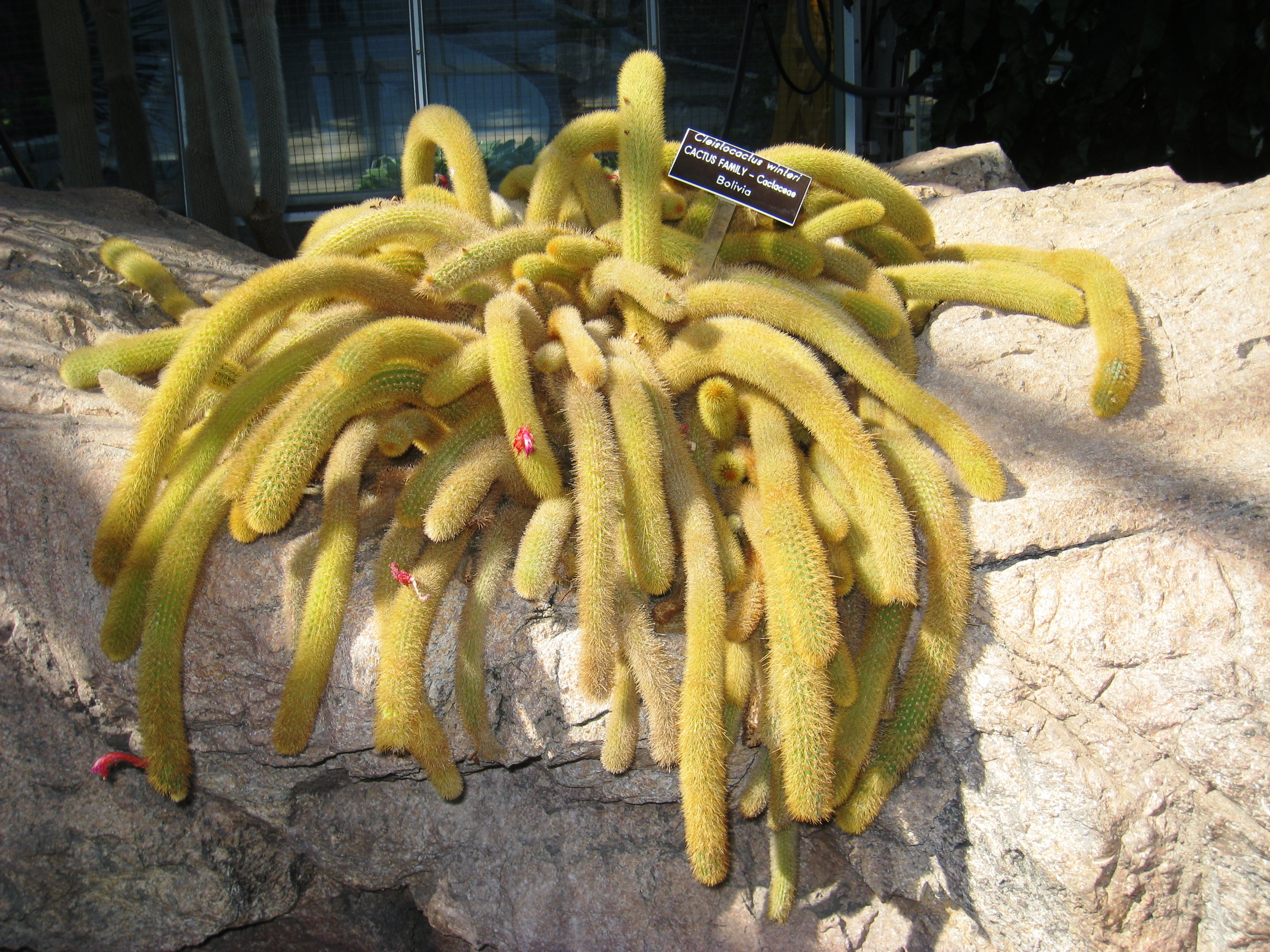 Cleistocactus winteri, in the United States Botanic Garden, Washington, DC, USA.